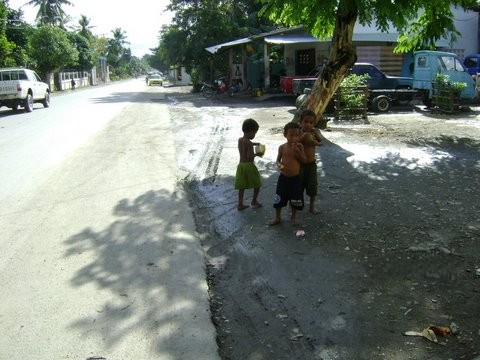 Children of Becora, Dili